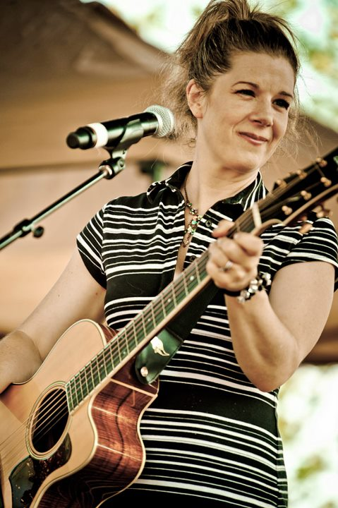 Photo Credit: Joe del Tufo